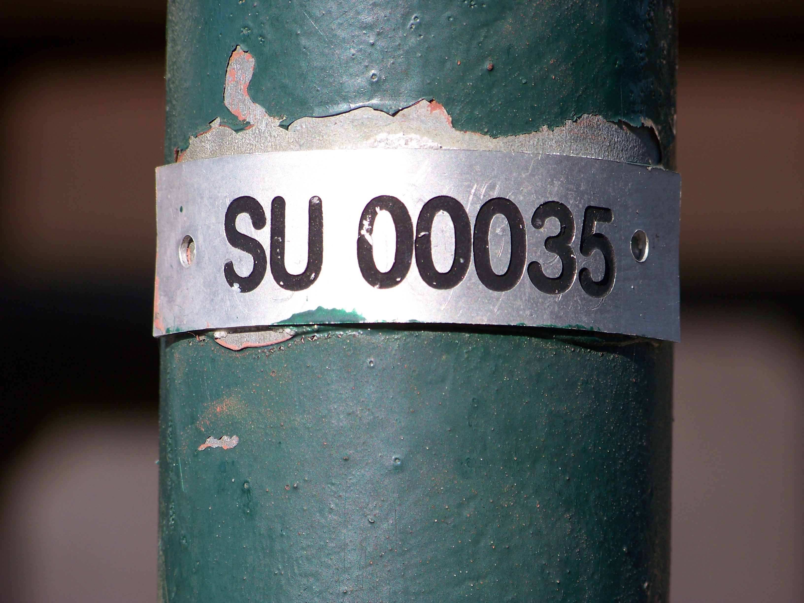 Sezimovo Ústí, Tábor District, South Bohemian Region, the Czech Republic. Šafaříkova street, a streetlamp number.